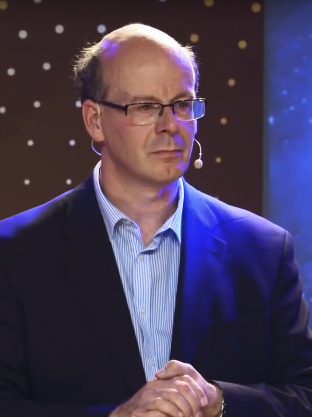 Ralph Wijers (2013)